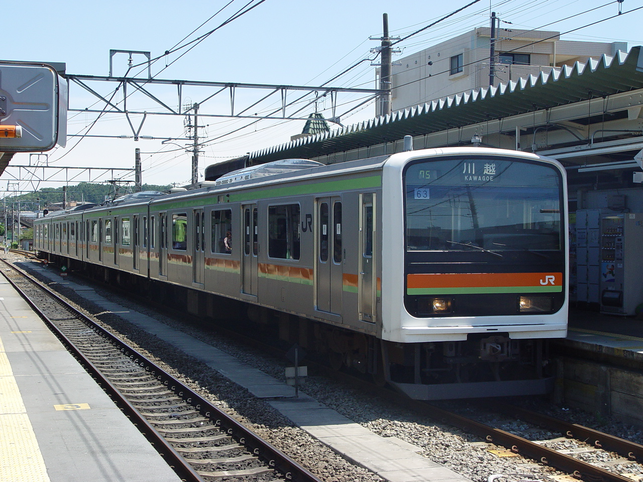 JR East 209-3000 series EMU set No. 63 at Komagawa Station on the Kawagoe Line